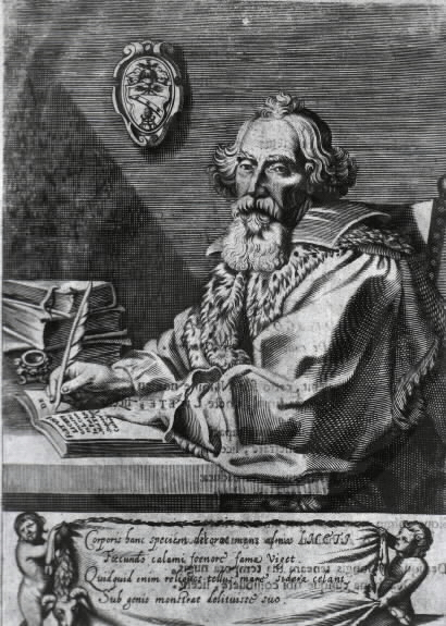 Portrait of Fortunio Liceti aka Fortunius Licetus, Italian scientist (1577-1657)